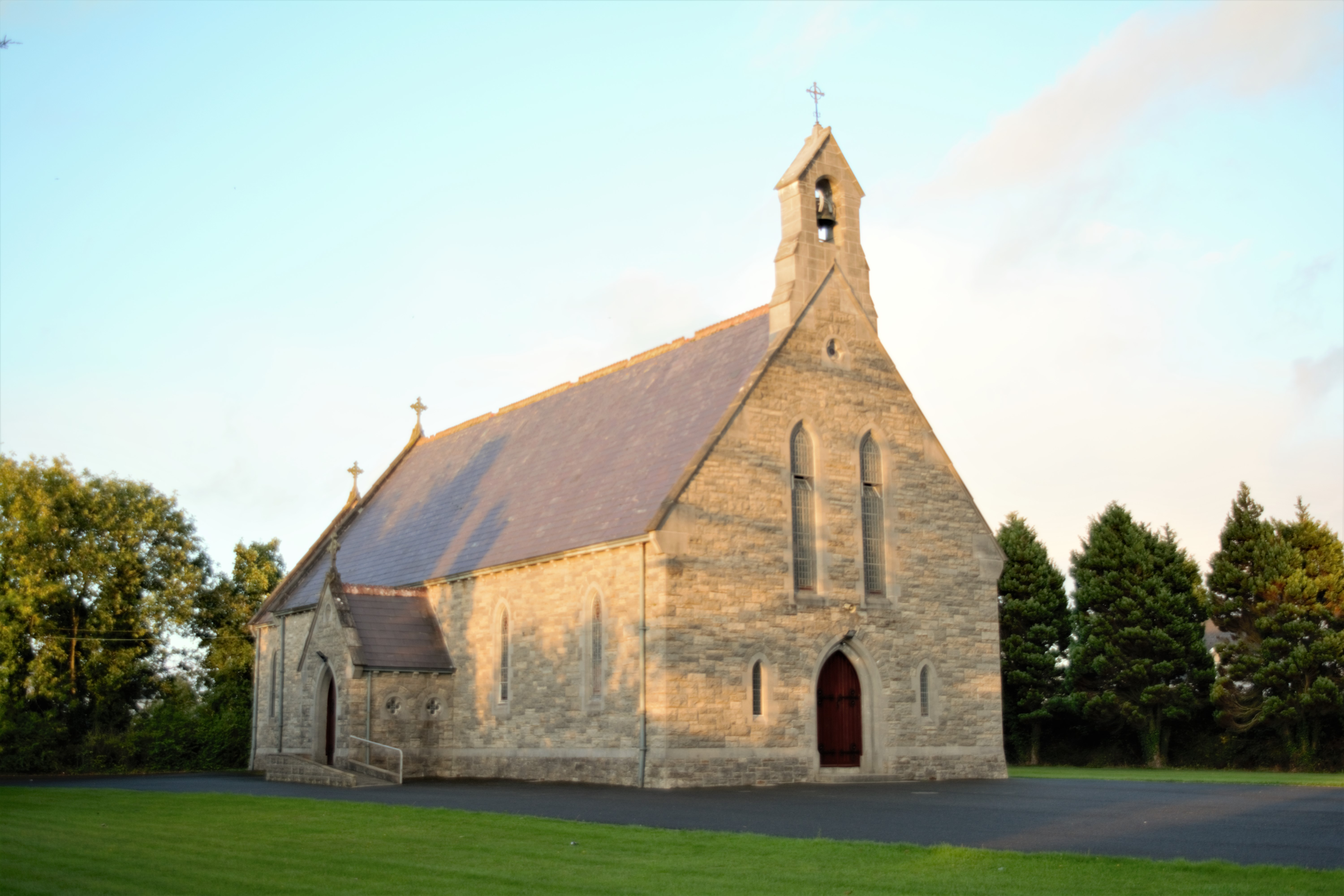 Kildalkey, St Dympna's Church. Wikidata has entry Q55029120 with data related to this item.